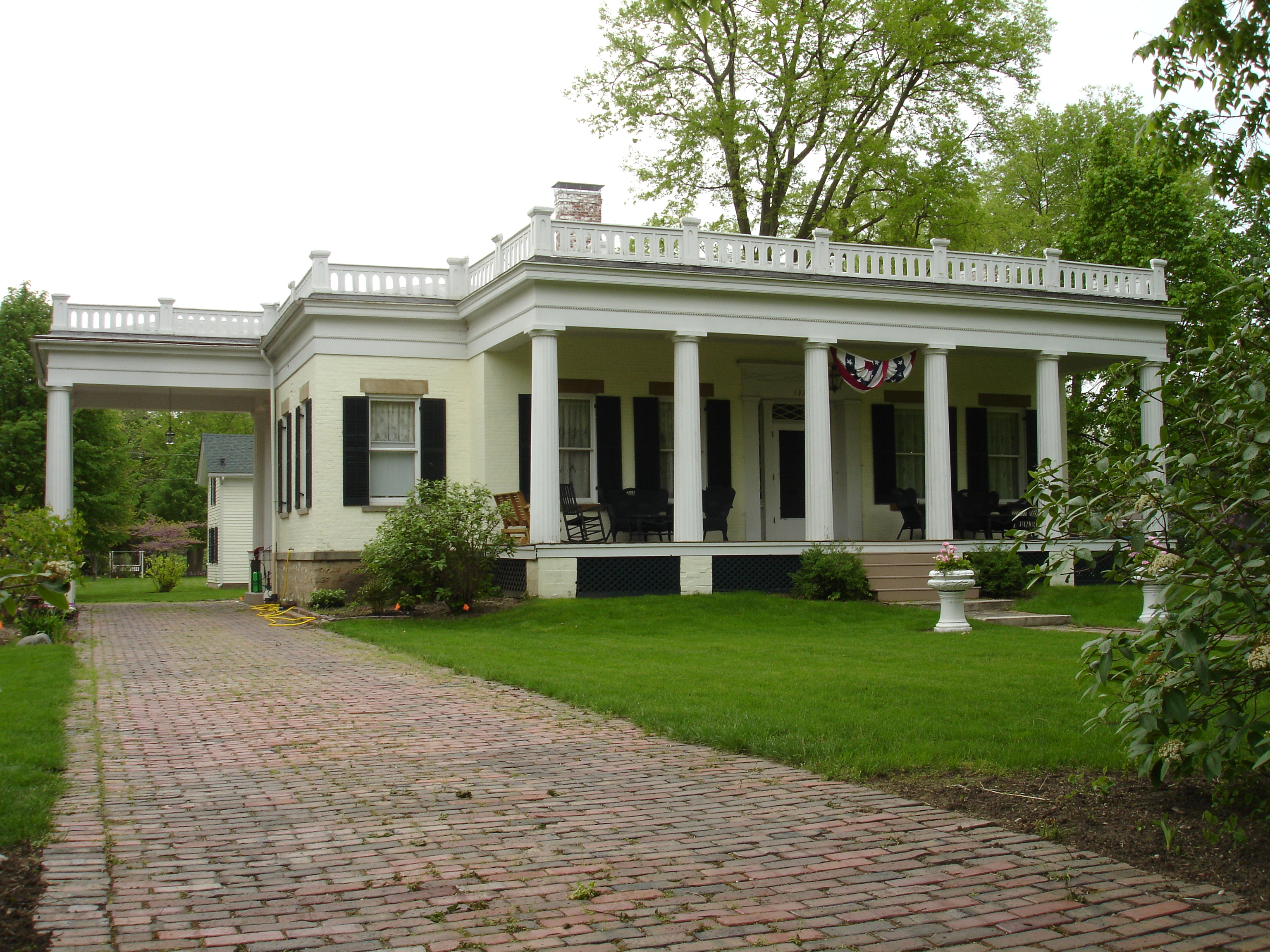 Fisher-Nash-Griggs House, Ottawa, Illinois, USA. Listed on the U.S. National Register of Historic Places.